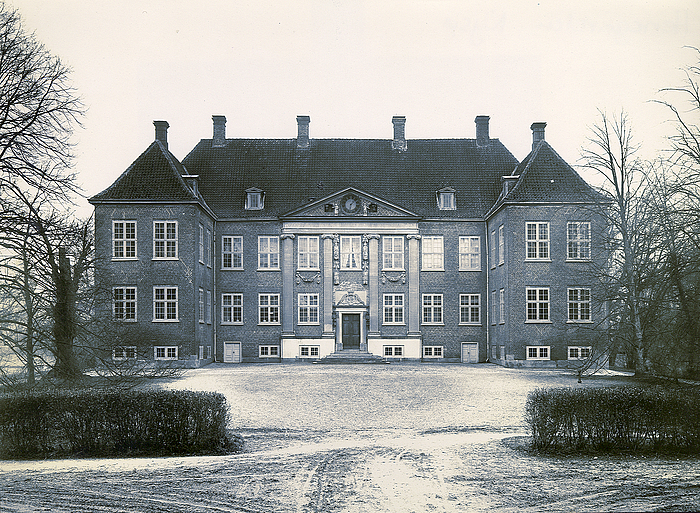 Nysø at Præstø, Denmark